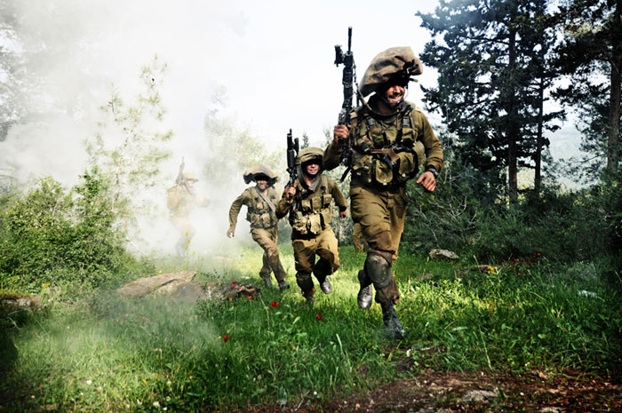 October 2011 Soldiers from 'Yahalom', special elite combat engineering unit of the Israel Defense Forces Engineering Corps at the end of a concluding military exercise. The name "Yahalom" (Diamond in Hebrew) is an abbreviation of "Special Operations Engineering Unit". Photo by the IDF Spokesperson Unit. Featured as Photo of the Day on November 13th, 2011. The Israel Defense Forces Facebook page The Israel Defense Forces blog Follow us on Twitter